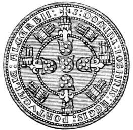 Seal of John I of Portugal